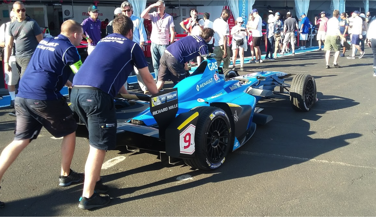 The Renault e.Dams Formula E team wheels Pierre Gasly's No. 9 car in the NYC ePrix paddock prior to qualifications.